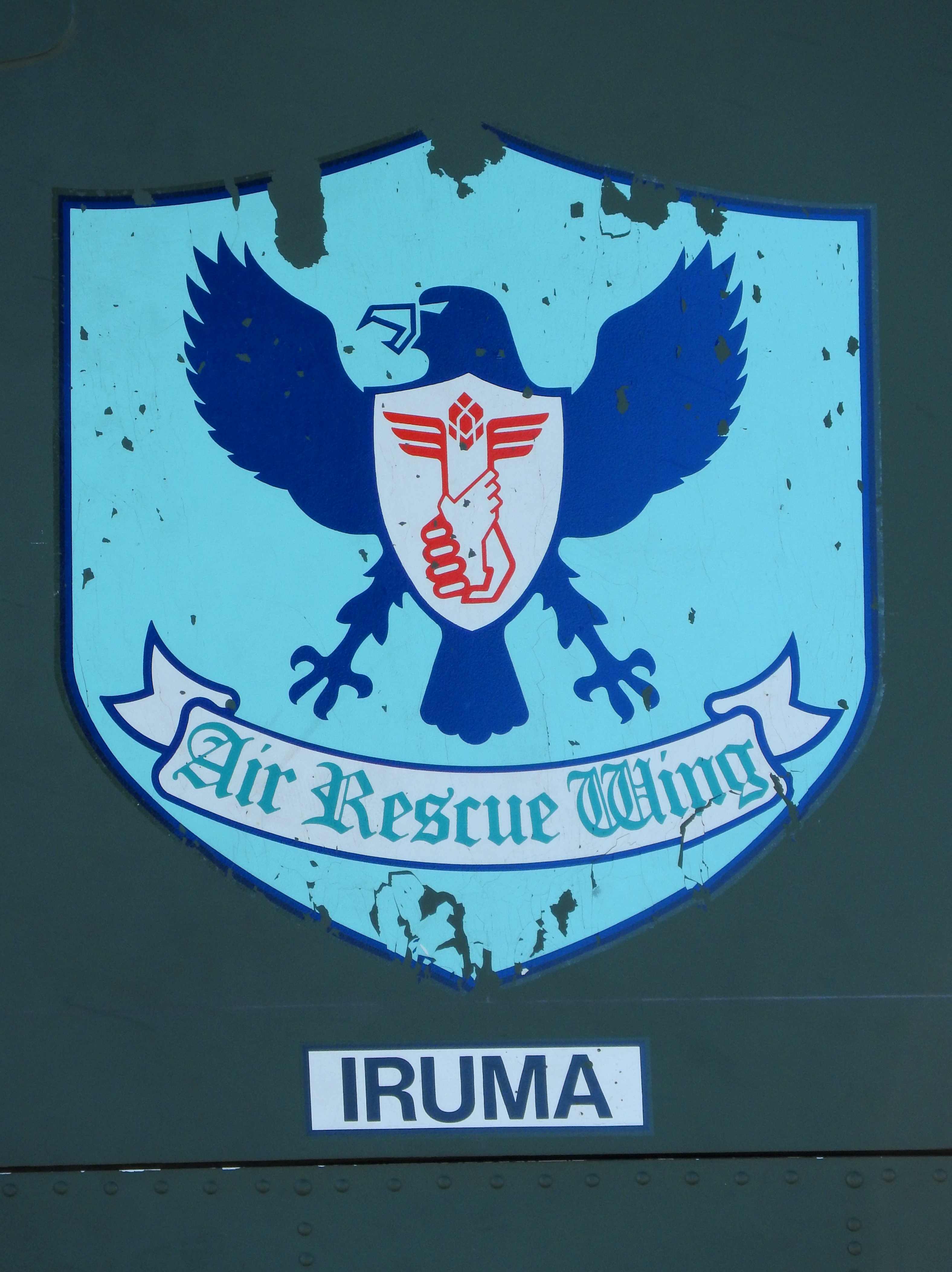 The tail marking of CH-47JA 47-4490 at the 2016 Iruma Air Show